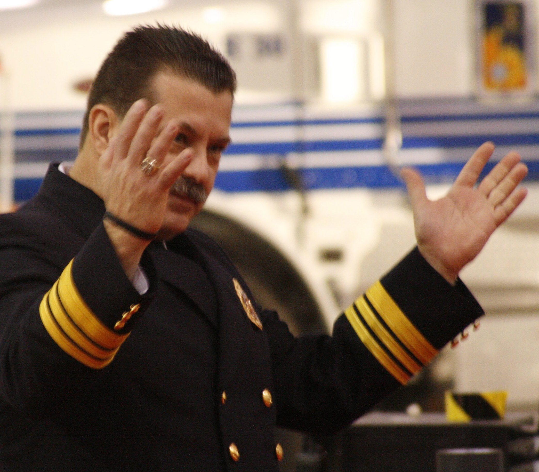 Dennis L. Rubin, Fire Chief in charged of the District of Columbia Fire and Emergency Medical Services Department, in January 2008.